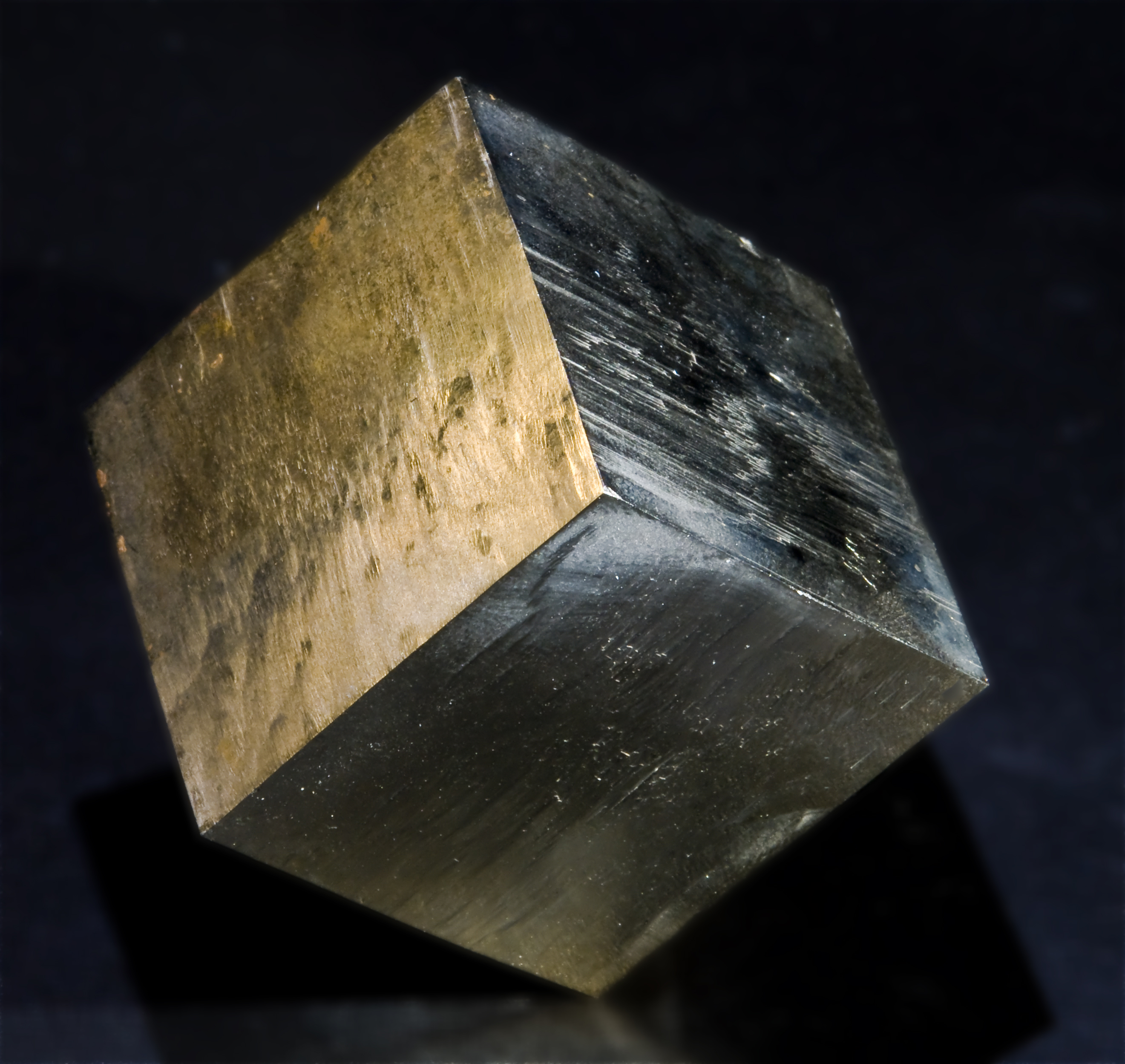 Pyrite cube Locality : Ampliación a Victoria mina, Navajún, La Rioja, Spain Size : 4x4x4cm